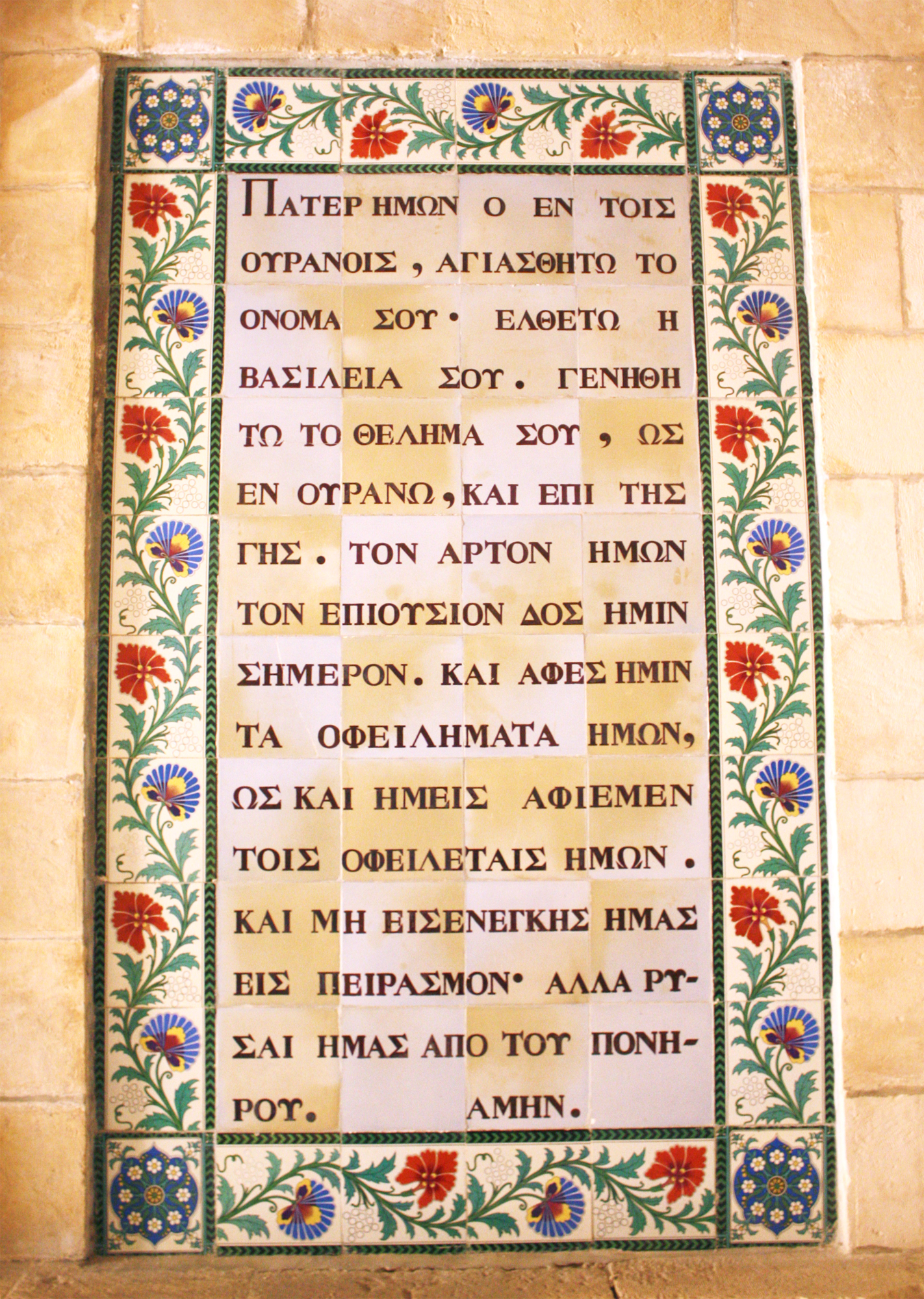 Lord's Prayer in Greek - Church of the Pater Noster